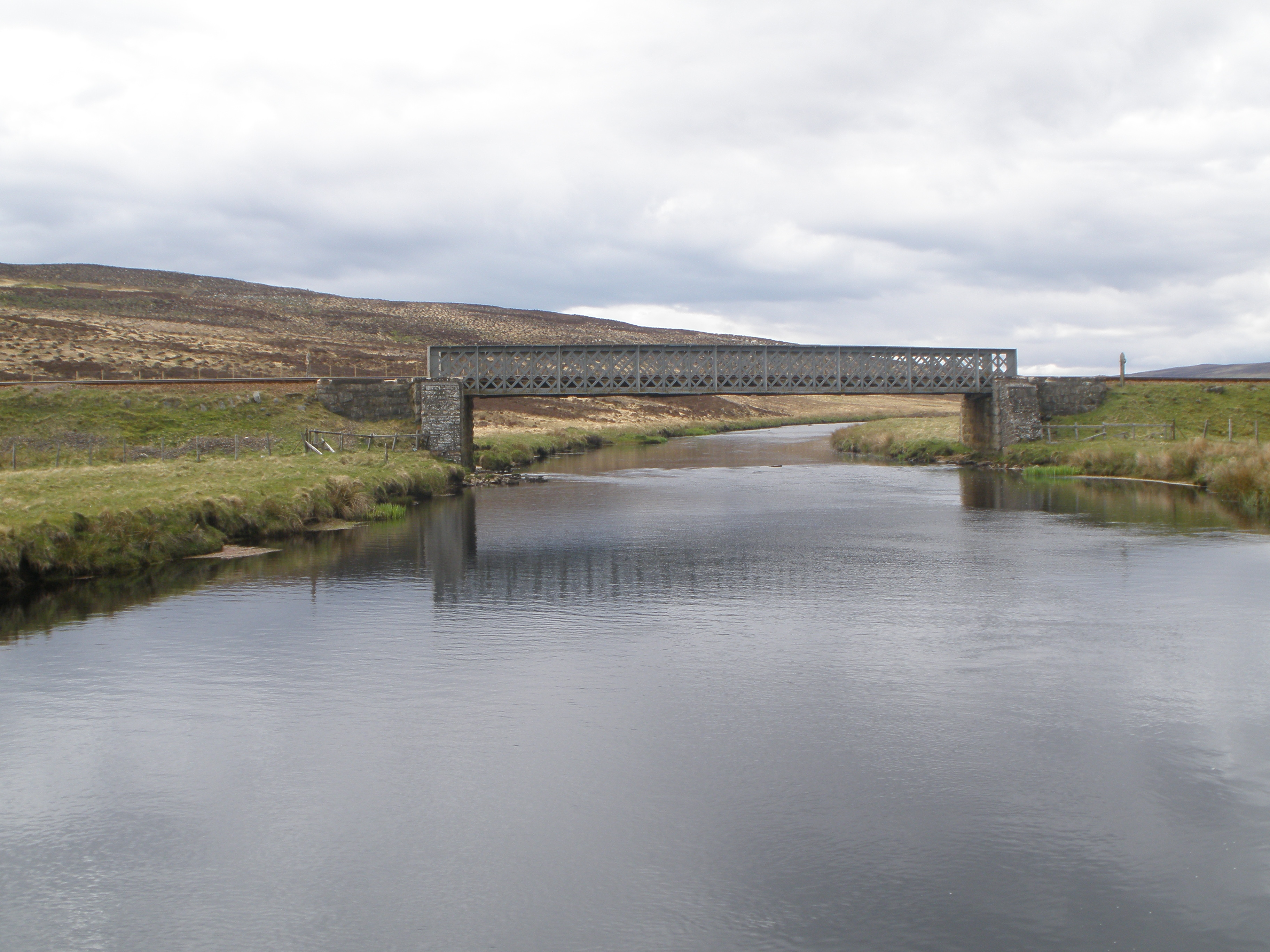 Town lattice girder railway bridge over River Helmsdale, Kinbrace, Highland